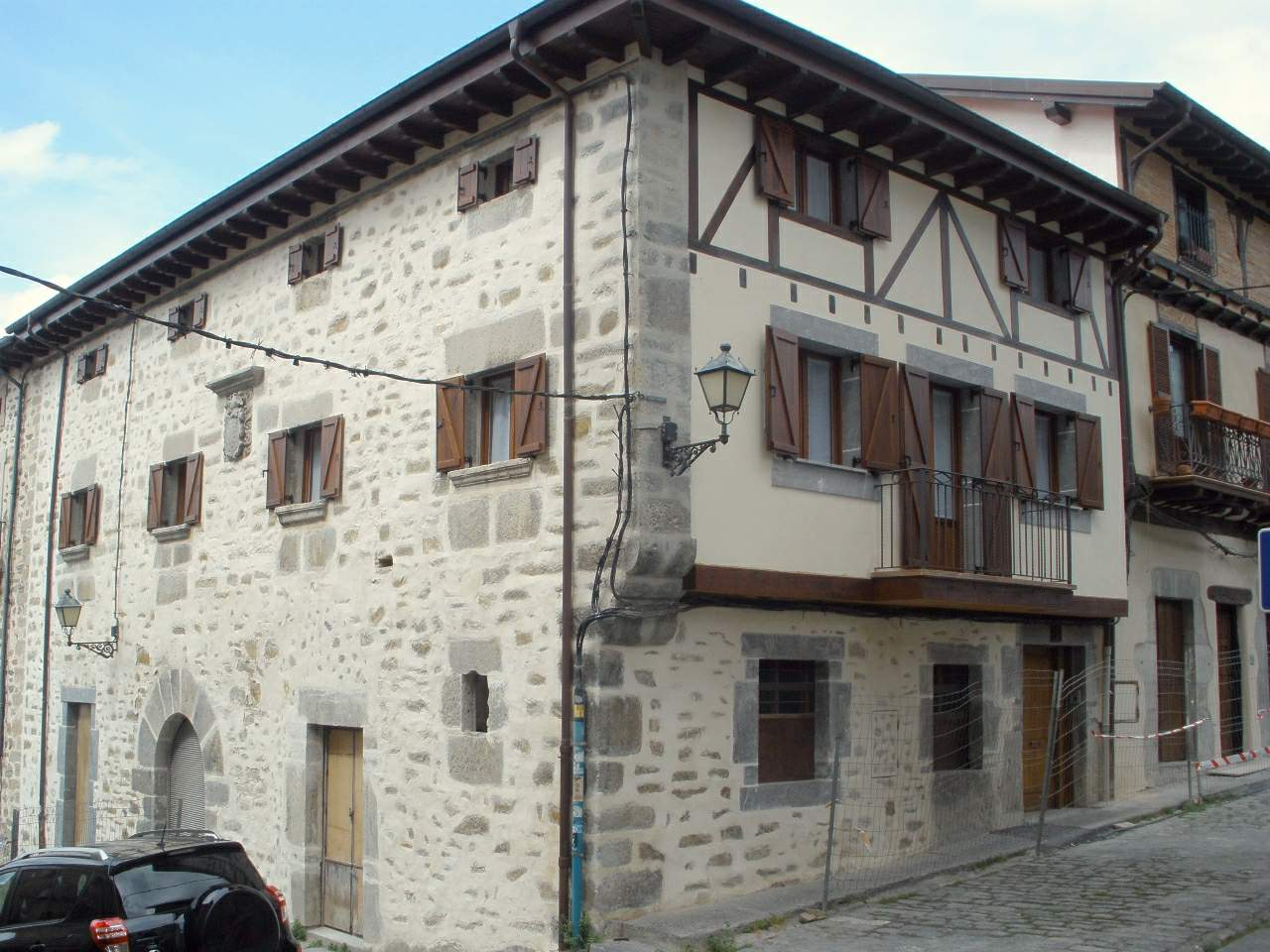 Arceniega (Álava)